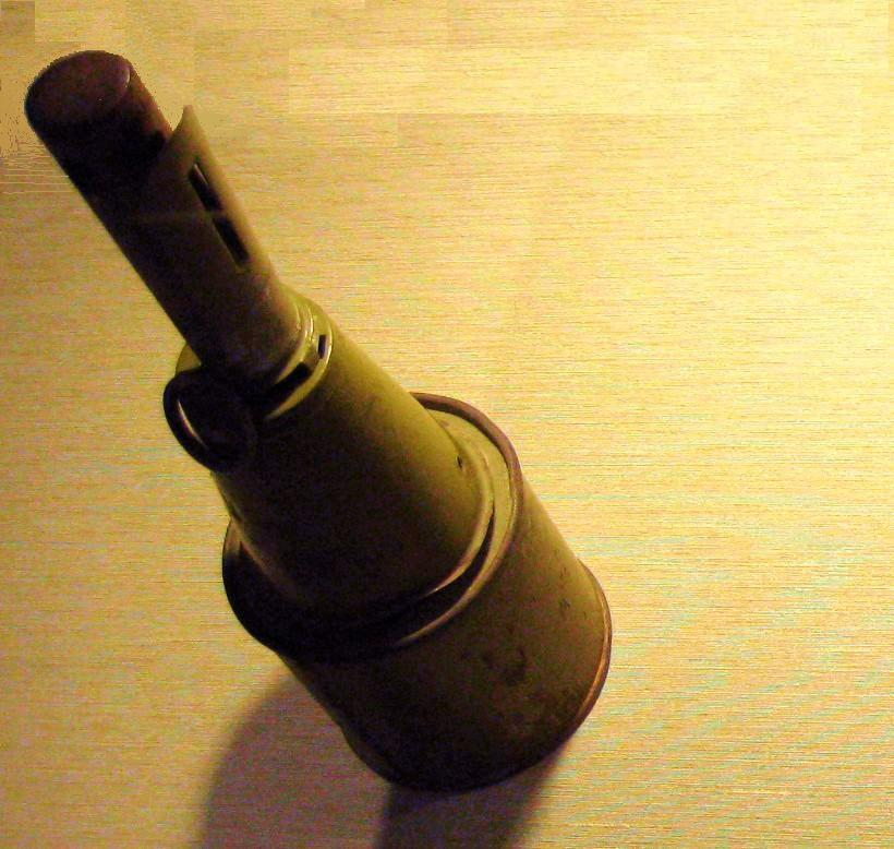 Anti-tank grenade, wirecutters and dagger carried by Unit 124 member Kim Shin-Jo